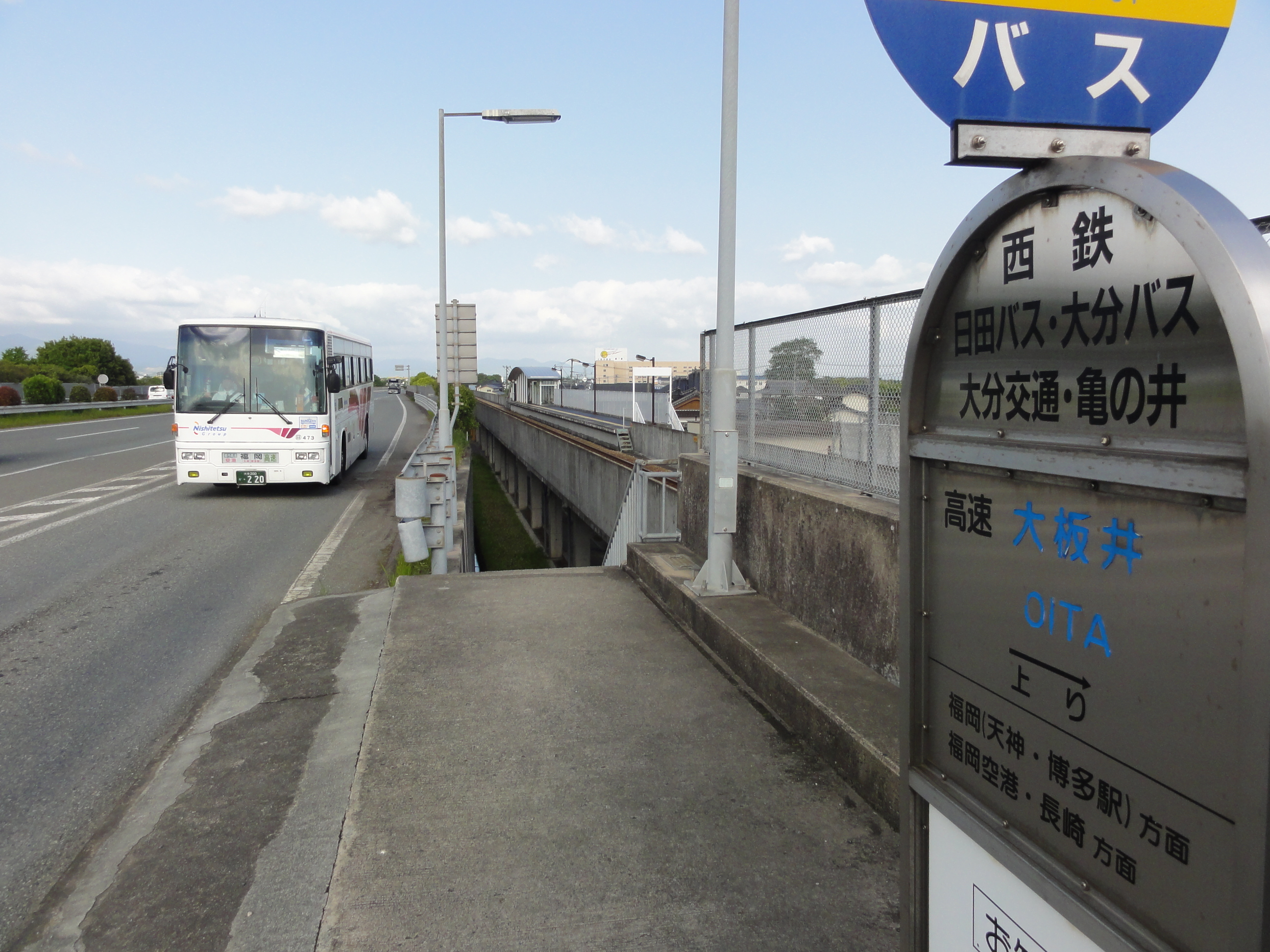 Oitai Bus Stop for Kiyama and Amagi Railway Oitai Station